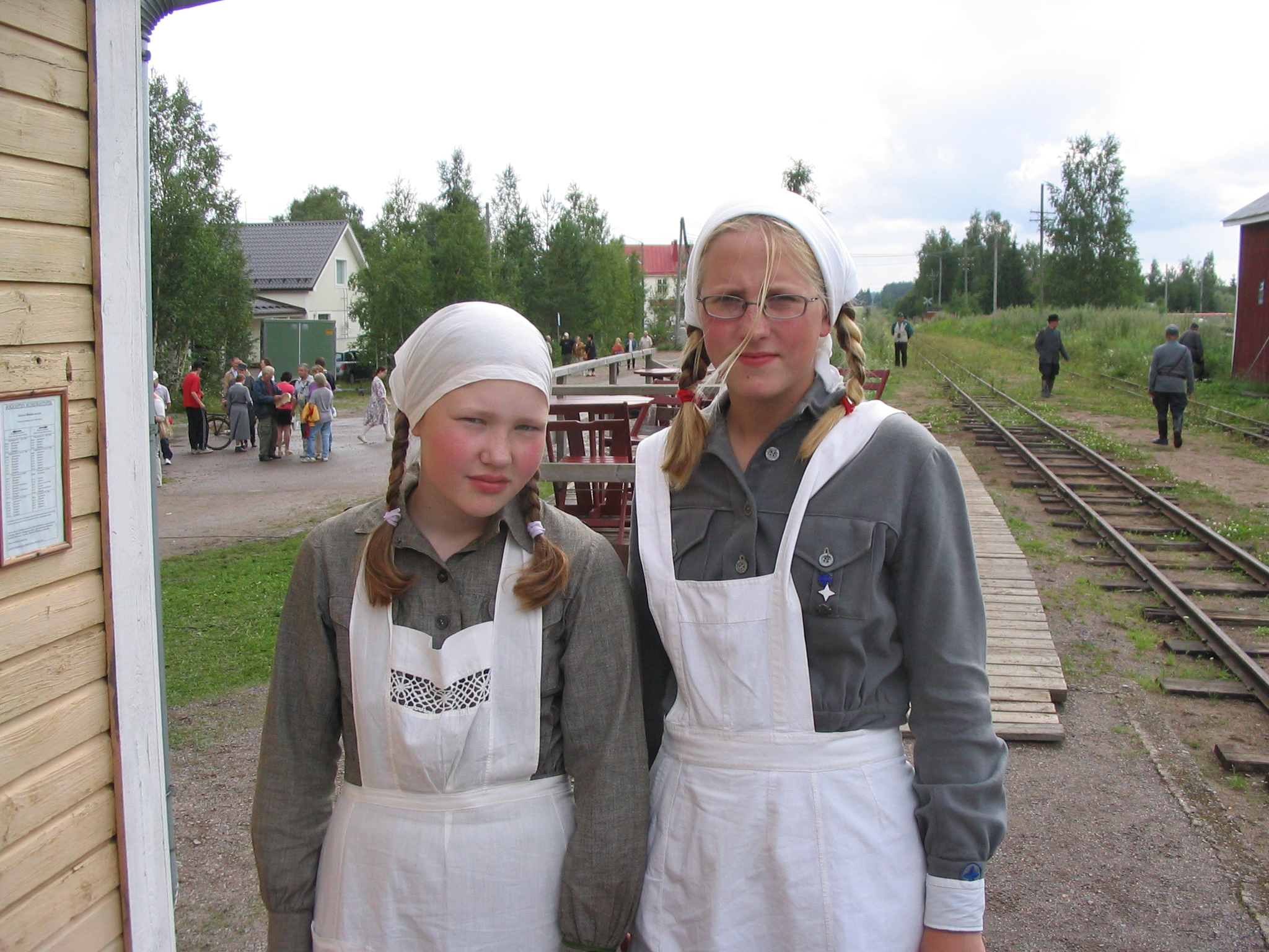 Lotta Svärd girls at a history event.